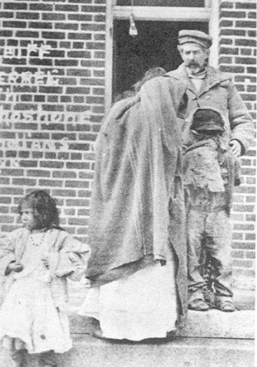 Nevada Sheriff Charles Ferrel, with the four Bannock/Shoshone surviors of the Battle of Kelley Creek, in May of 1911 in front of a police station.